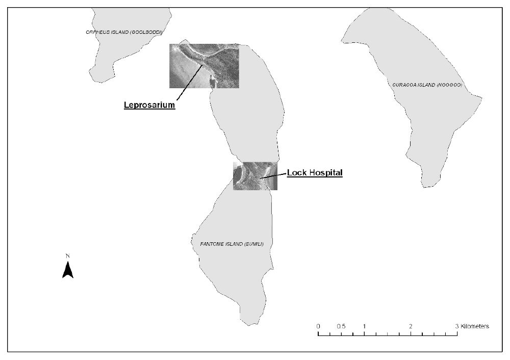 Fantome Island - location map for aerials (2012)